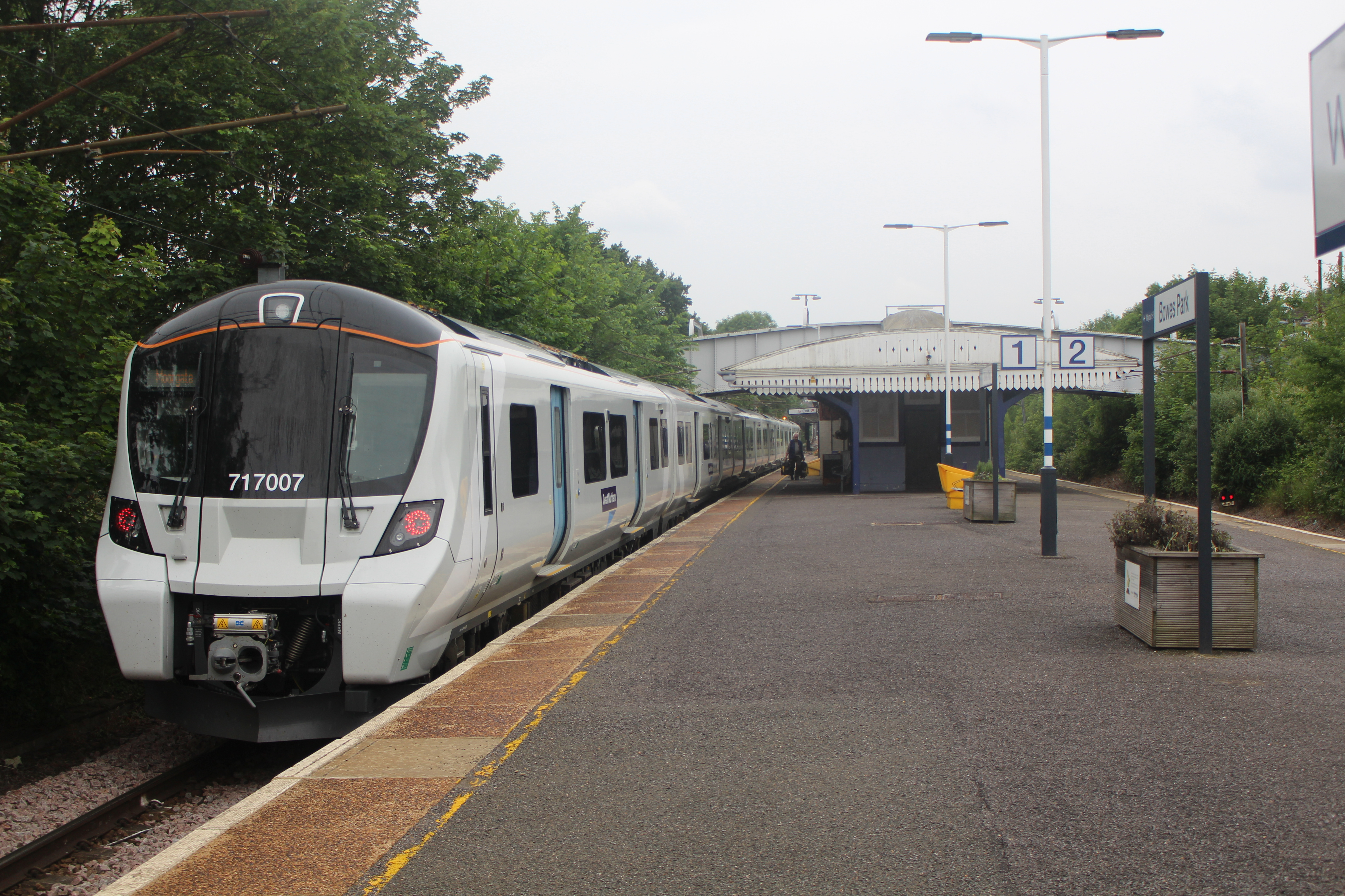 A train.